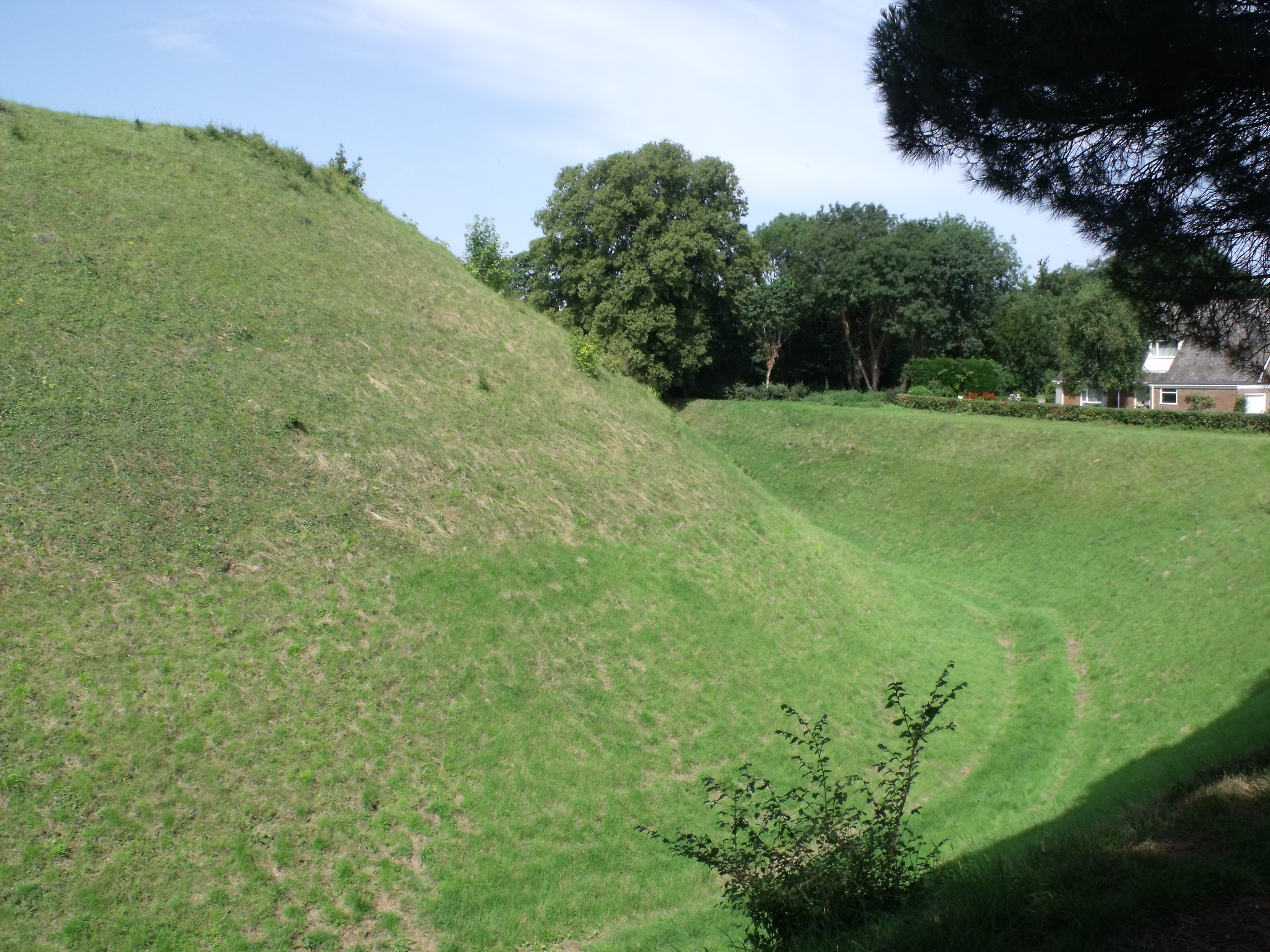 Castle Rising Castle, earthwork and ditch